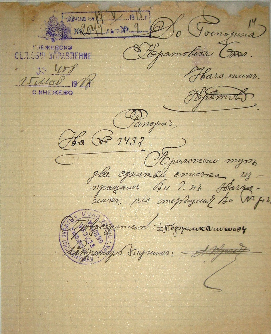 Document stamped by the rural municipality of Knezevo village, Kratovo region from Kumanovo District. May 15, 1918. This media file is produced by Wikipedian in Residence in Category:Wikipedian in Residence at DARM in 2016.